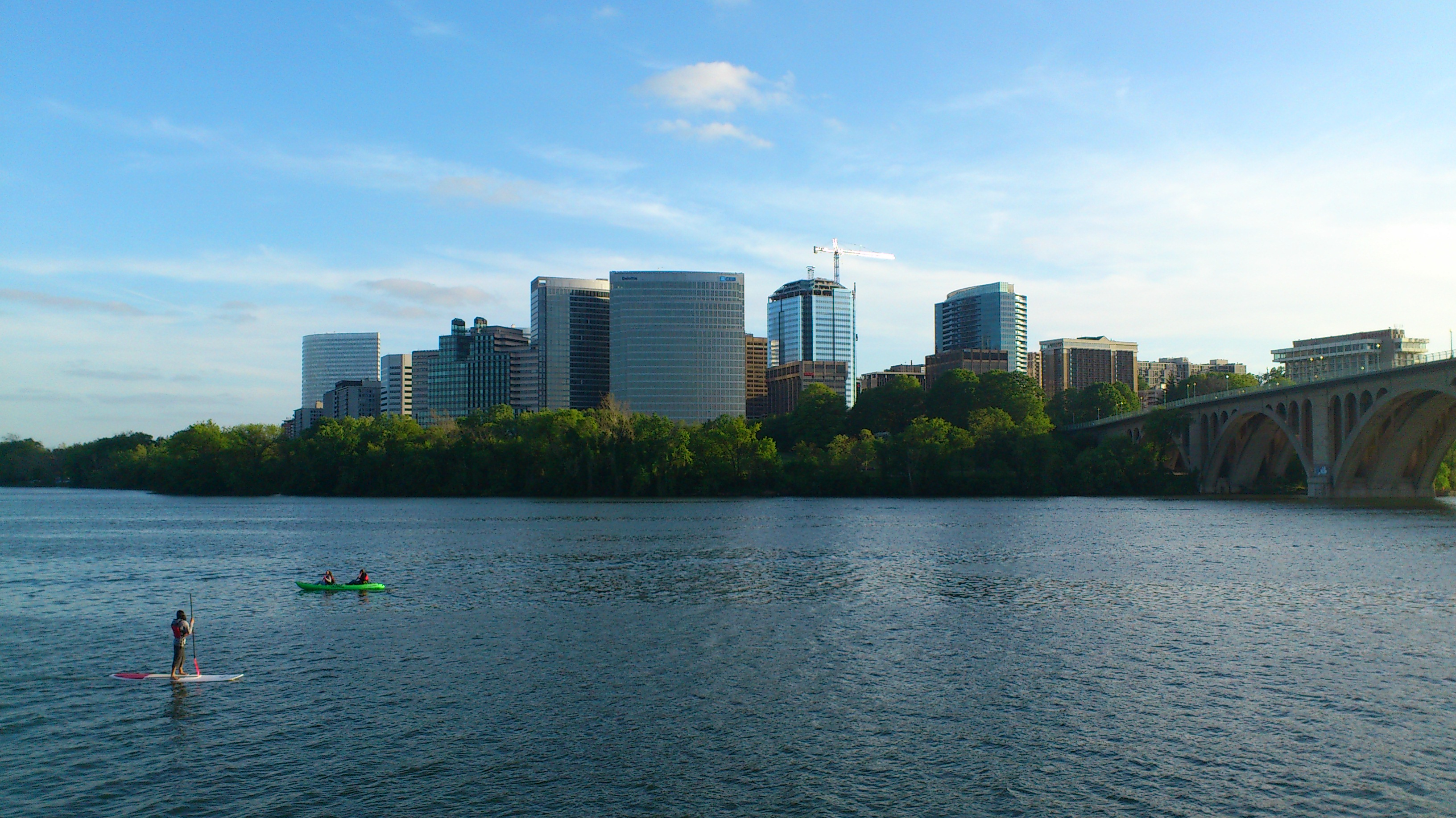 I think the standing-boat rentals must be new this year